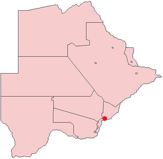 Tlokweng, Botswana Location Map; created with the GIMP. Made by User:Acntx.